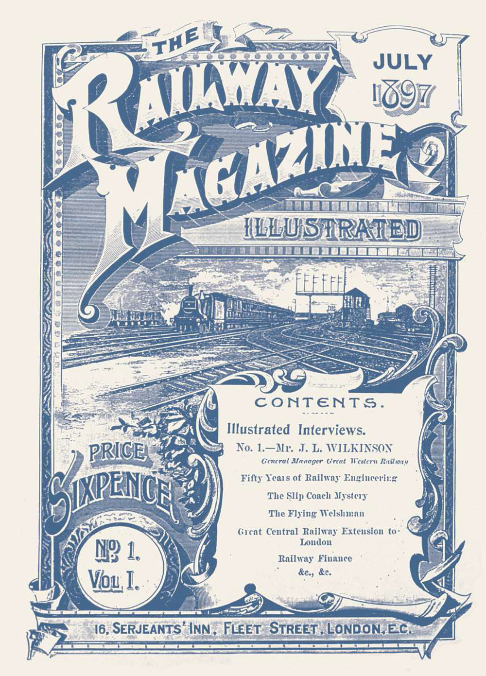 Front Cover of Issue 1 of The Railway Magazine from July 1897